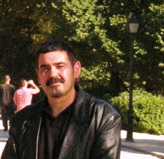 Leon Arsenal, spanish writer